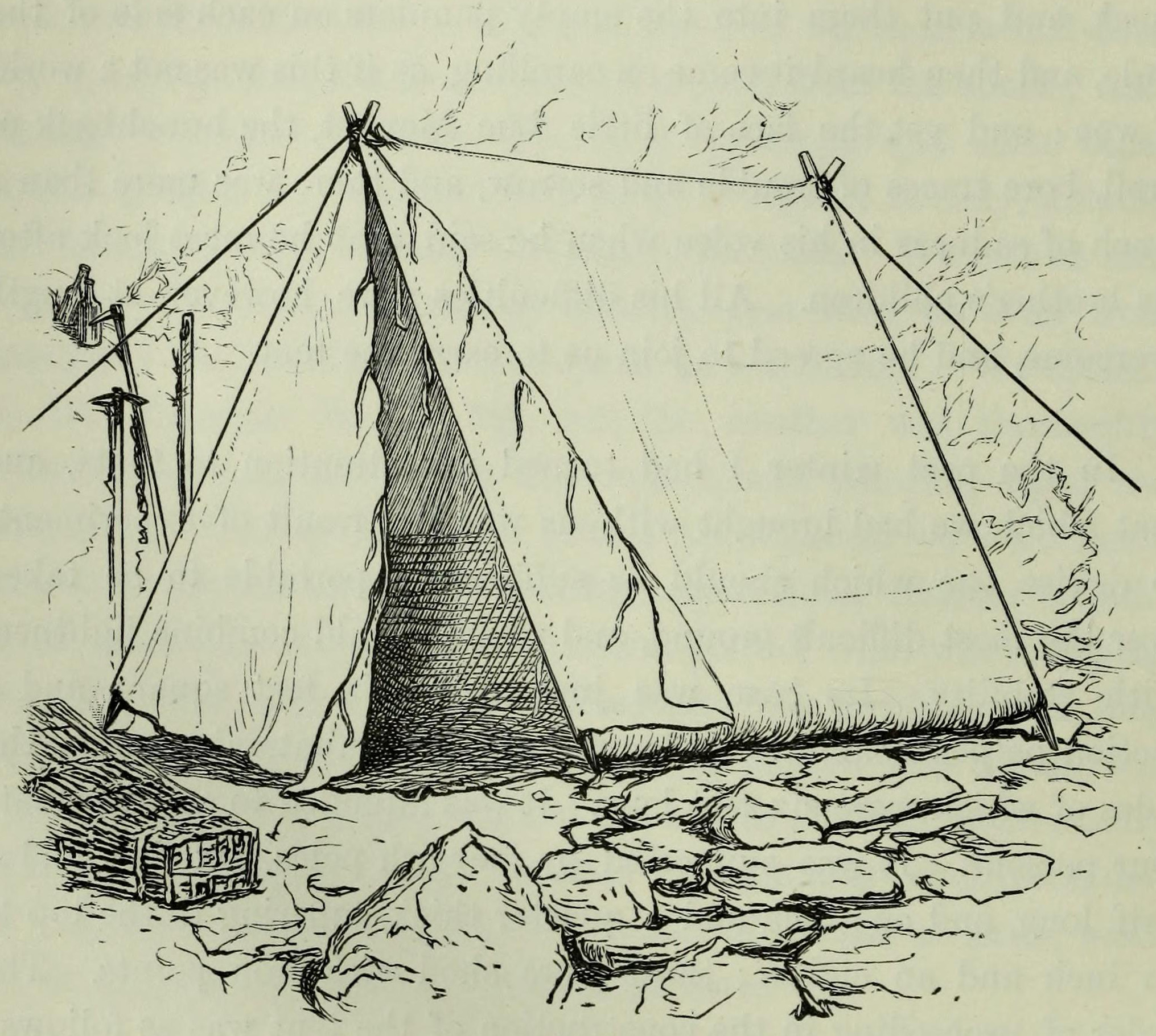 Image on page 134 of Scrambles amongst the Alps